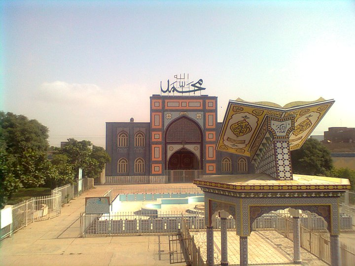 Bhong Mosque This is a photo of a monument in Pakistan identified as the PB-P-194